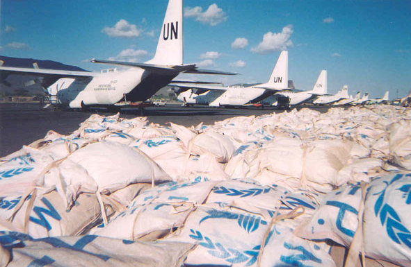 United Nations World Food Program C-130 Hercules transports parked at Lokichokio Airport, Kenya. After the World Food Program improves the Rumbek airstrip now that it has been cleared of unexploded ordnance, these heavy aircraft will be able to dramatically increase the amount of food, medicine, clothing and shelter needed in the Rumbek region of southern Sudan.